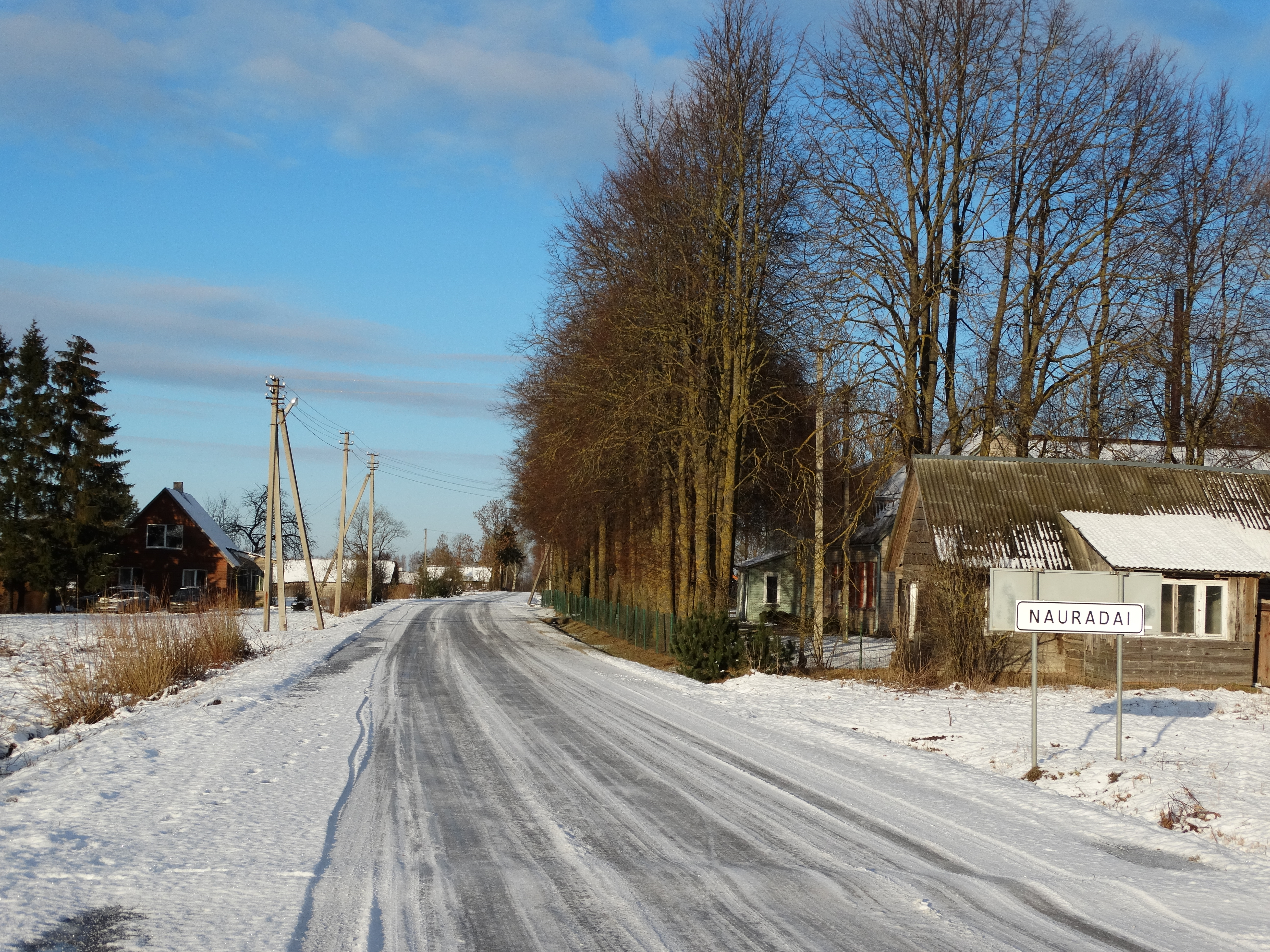 Nauradai, Panevėžys District, Lithuania